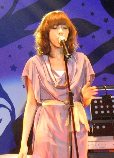 Olivia Ong at a mini concert in Hong Kong